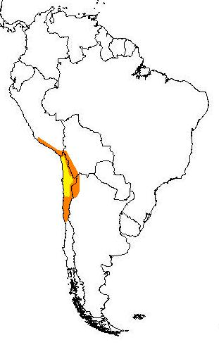 Atacama desert map